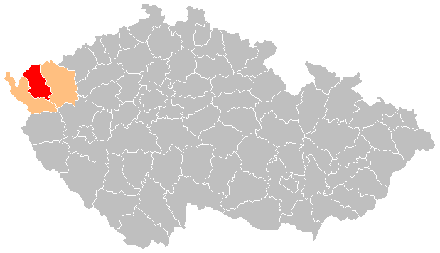 Sokolov District within Karlovy Vary Region. Current borders of districts since January 1, 2007.